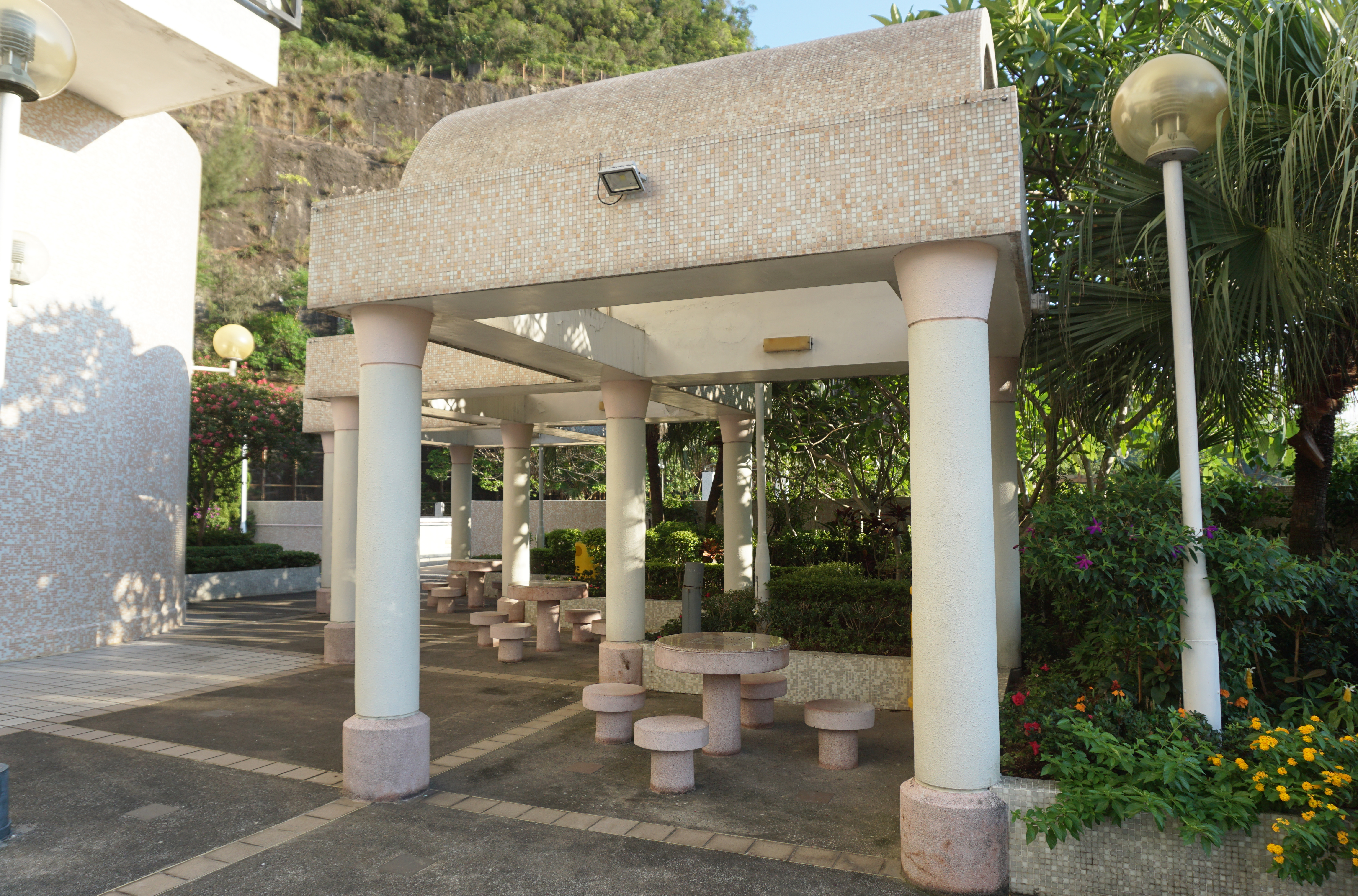 Yi Fung Court in Kwai Chung, Hong Kong.